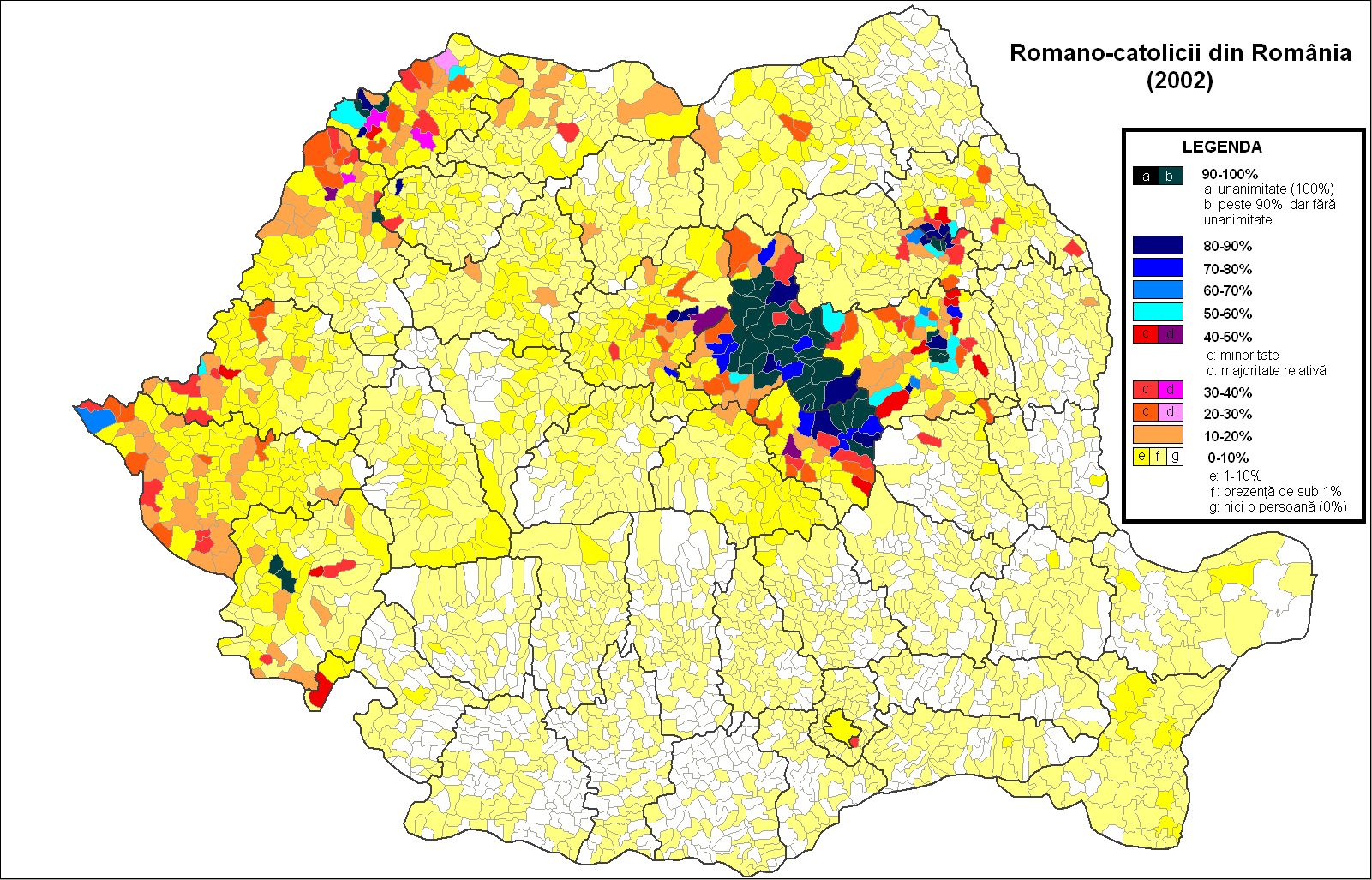 The distribution of the Roman-catholics in Romania (census 2002)